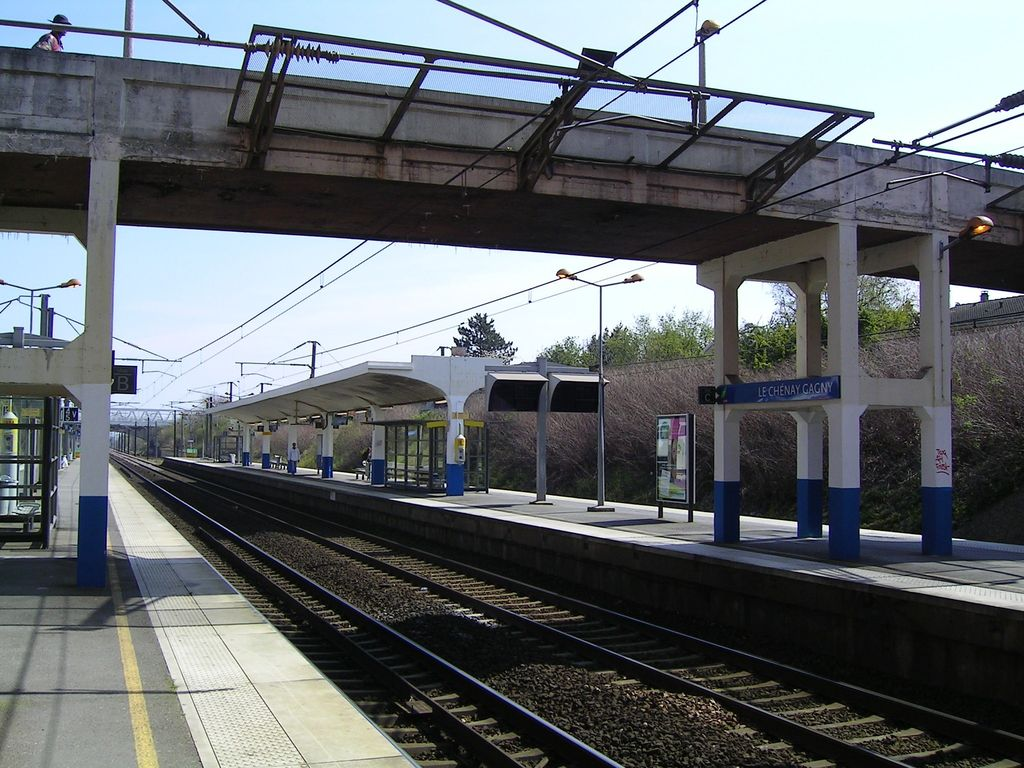 Gare Le Chénay, RER E Photo personnelle (own work) de Marianna